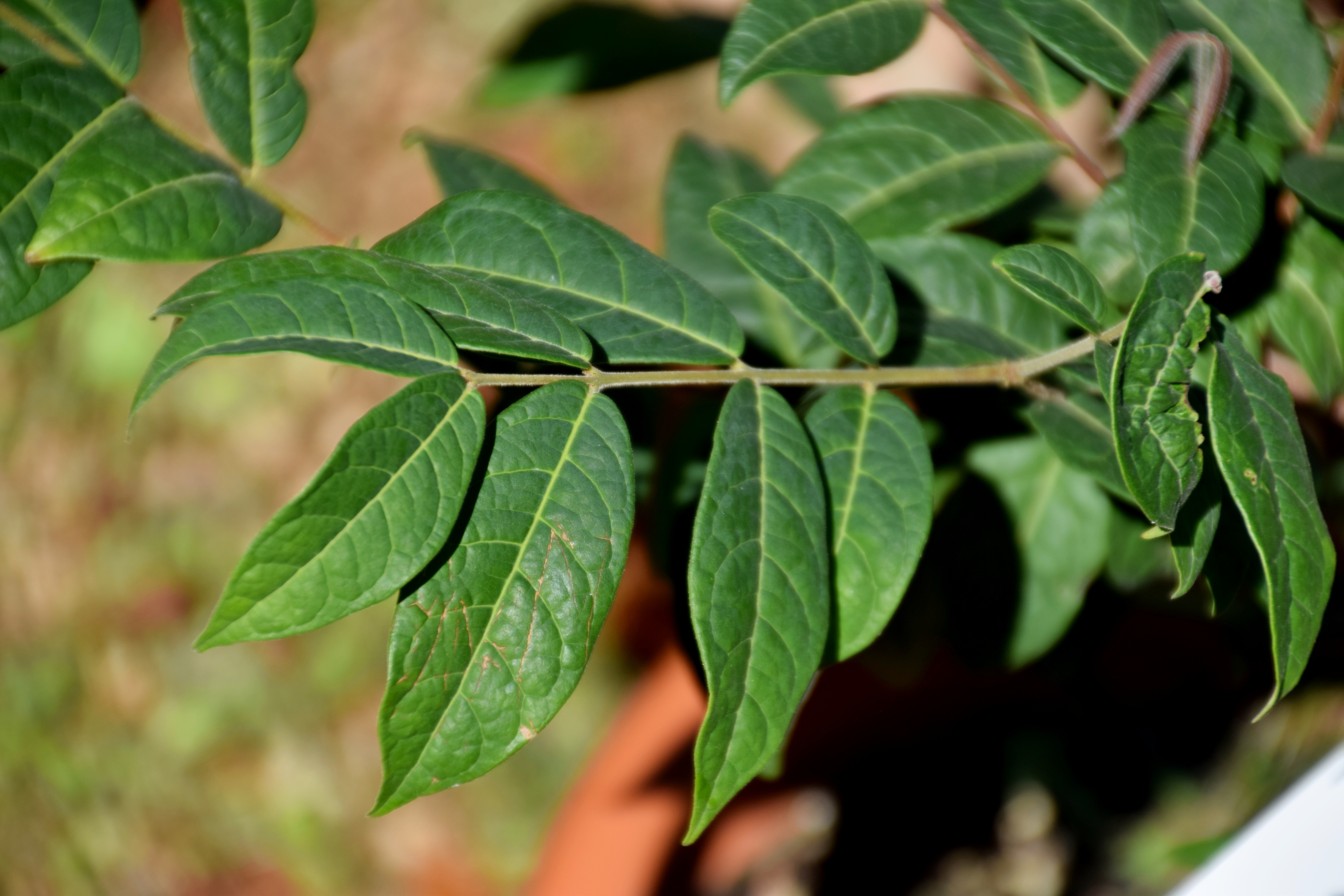 Eugenia stipitata in Jardin des Plantes de Toulouse